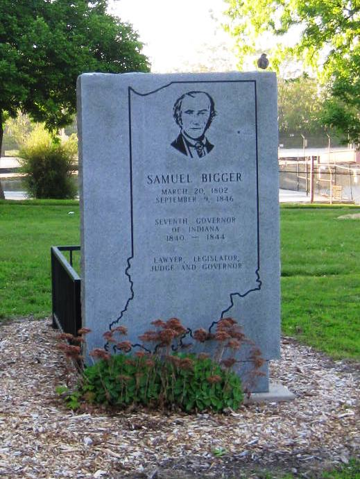 Governor of Indiana, Samuel Bigger, Grave Site, Fort Wayne, Indiana, McCulloch Park